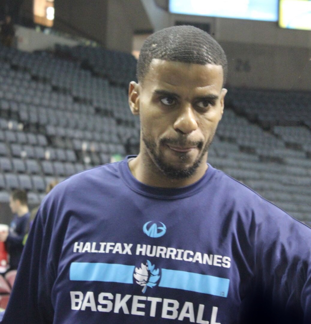 clint